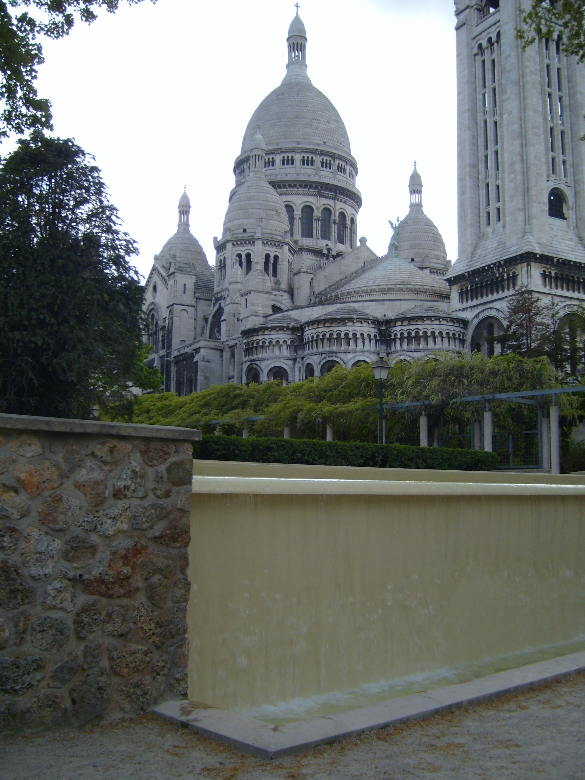 Fontaine de la Turlure, Parc de la Turlure, 18th arrondissement Paris